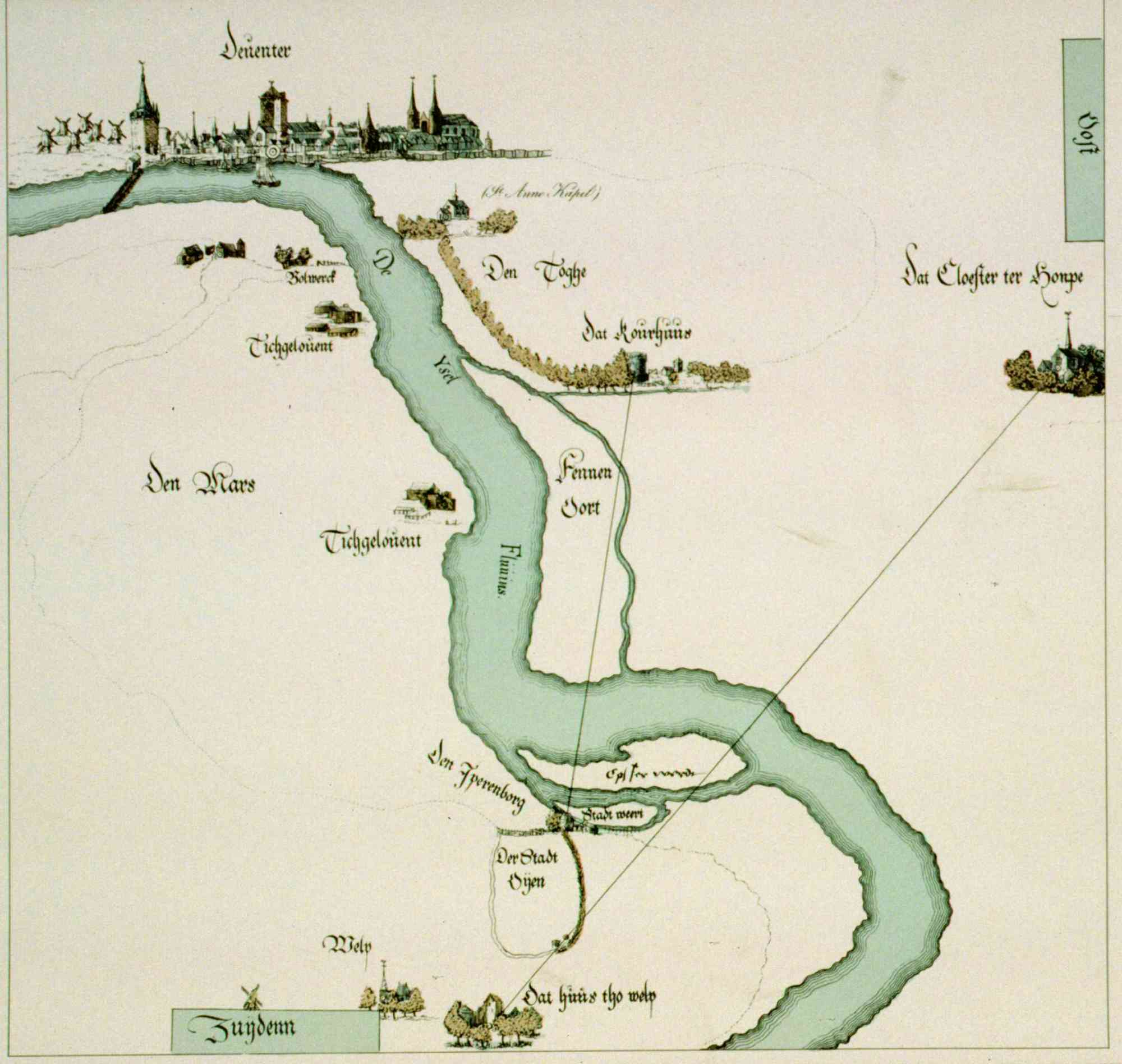 Profile of Deventer in the year 1567